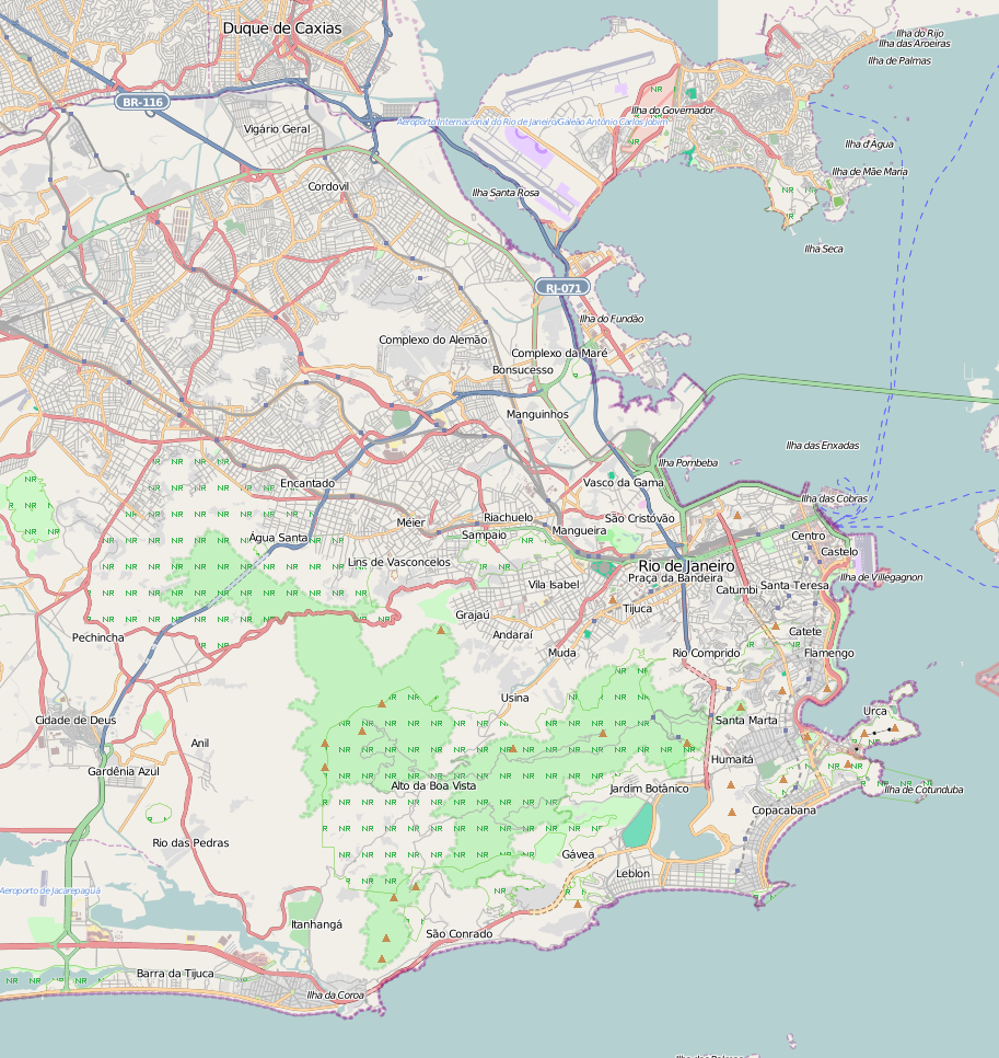 Map of Greater Rio de Janeiro city area. Geographic limits of the map: N: -22.7799° S: -23.0263° W: -43.383° E: -43.1303°